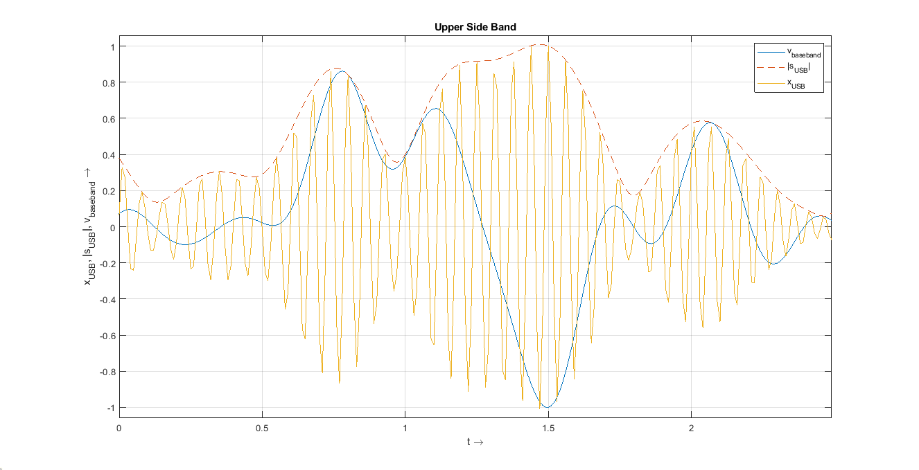 Example of a single-sideband (SSB) modulated signal in the time domain. In blue the baseband signal (LF), in orange the SSB signal. The diagram shown the upper side band (USB) with a suppressed carrier (carrier frequency 15 kHz). In red (dashed line) the envelope of the SSB signal.